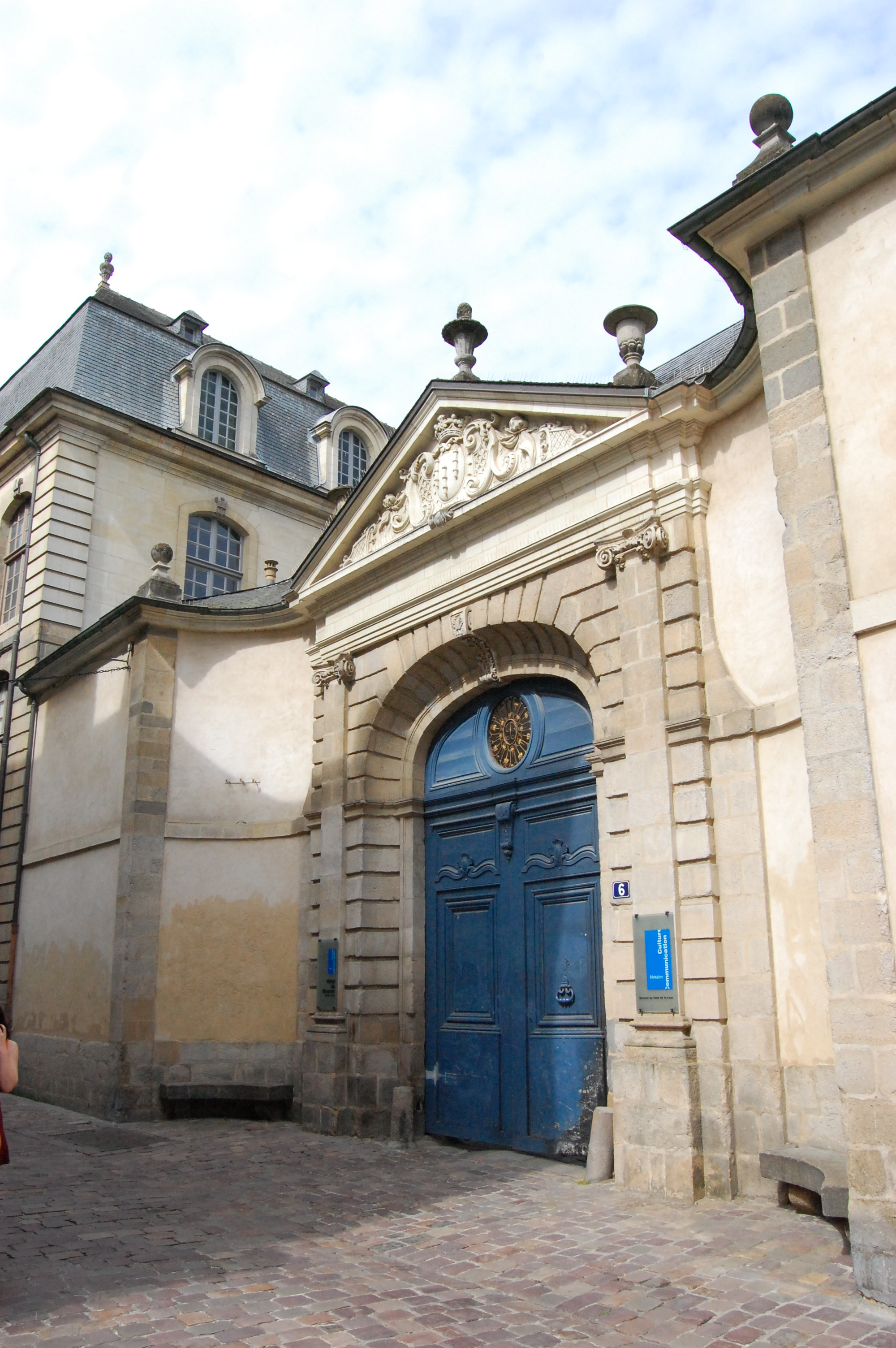 The Hôtel de Blossac and the portal, from the rue du Chapitre